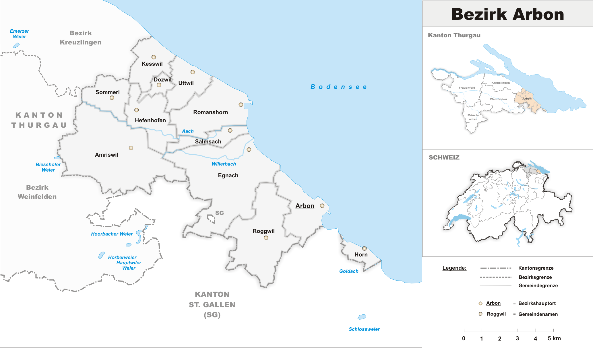 Municipalities in the district of Arbon